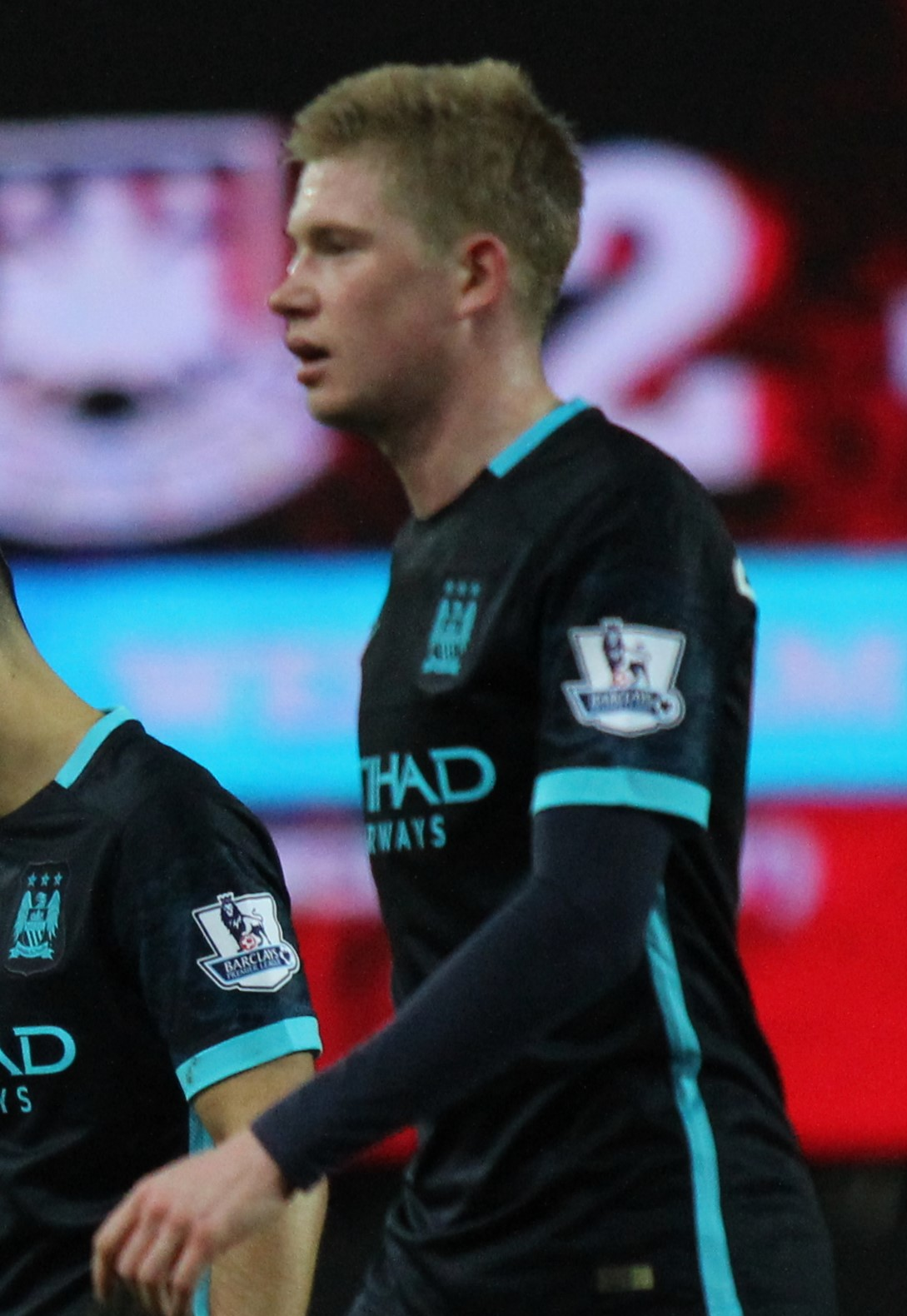 Sergio Aguero and Kevin De Bruyne of Manchester City after the game against West Ham.